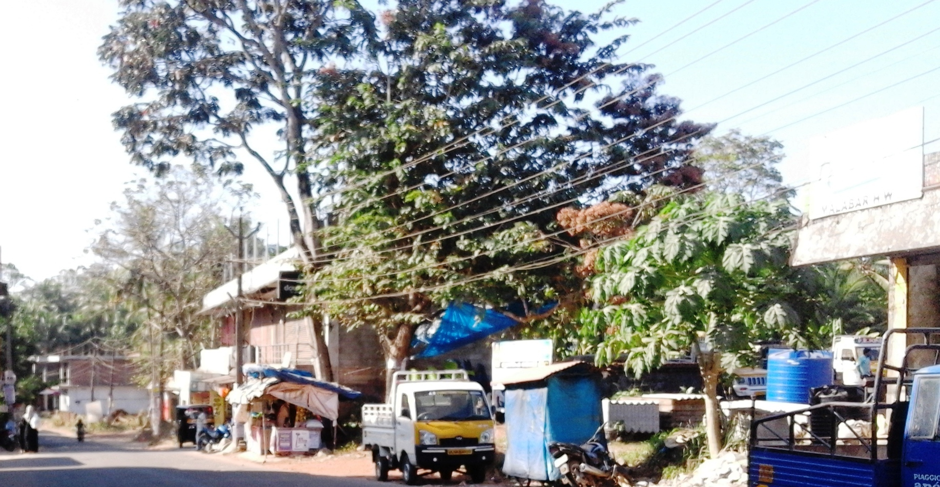 Kerala, India.